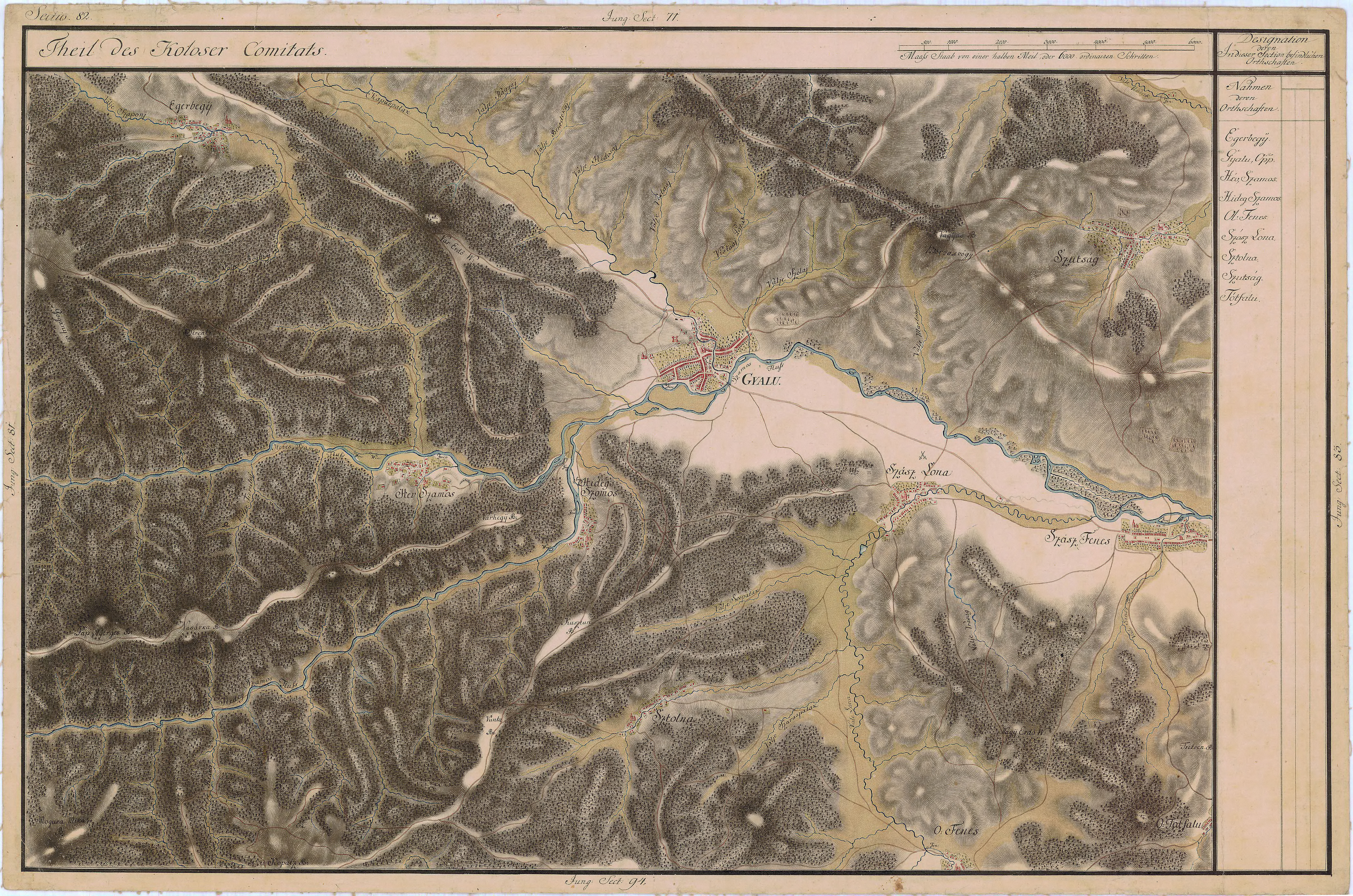 Grand Duchy of Transylvania, 1769-1773. Josephinische Landaufnahme pg.082